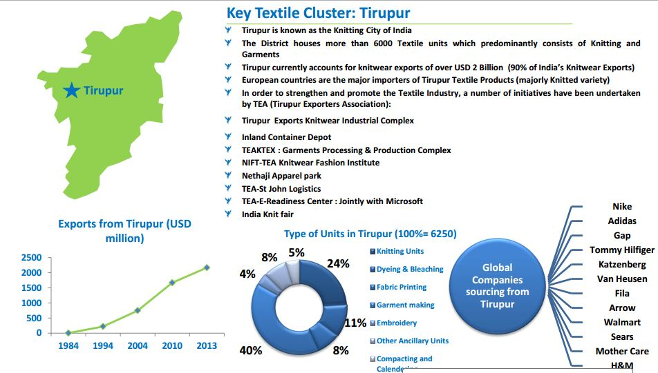 Tirupur - India's Knitting City